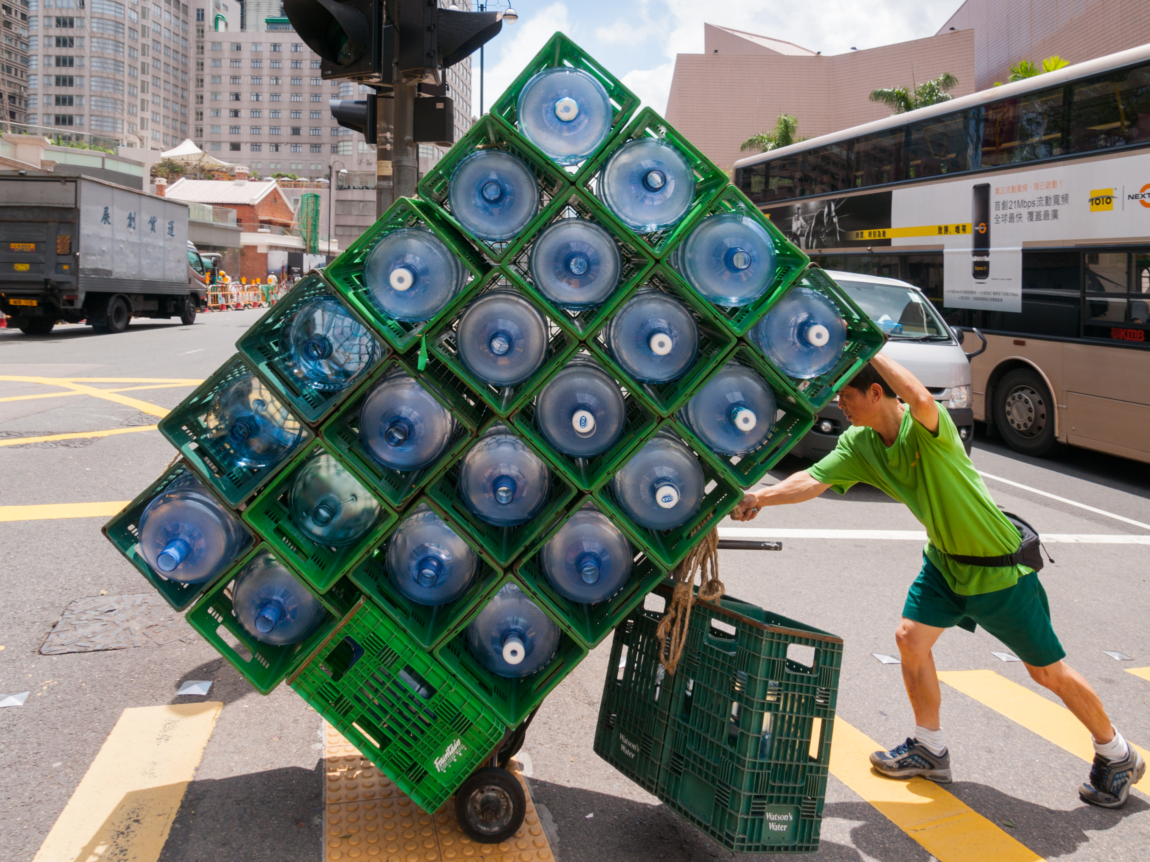 Hong Kong, China: A Chinese water supplier.